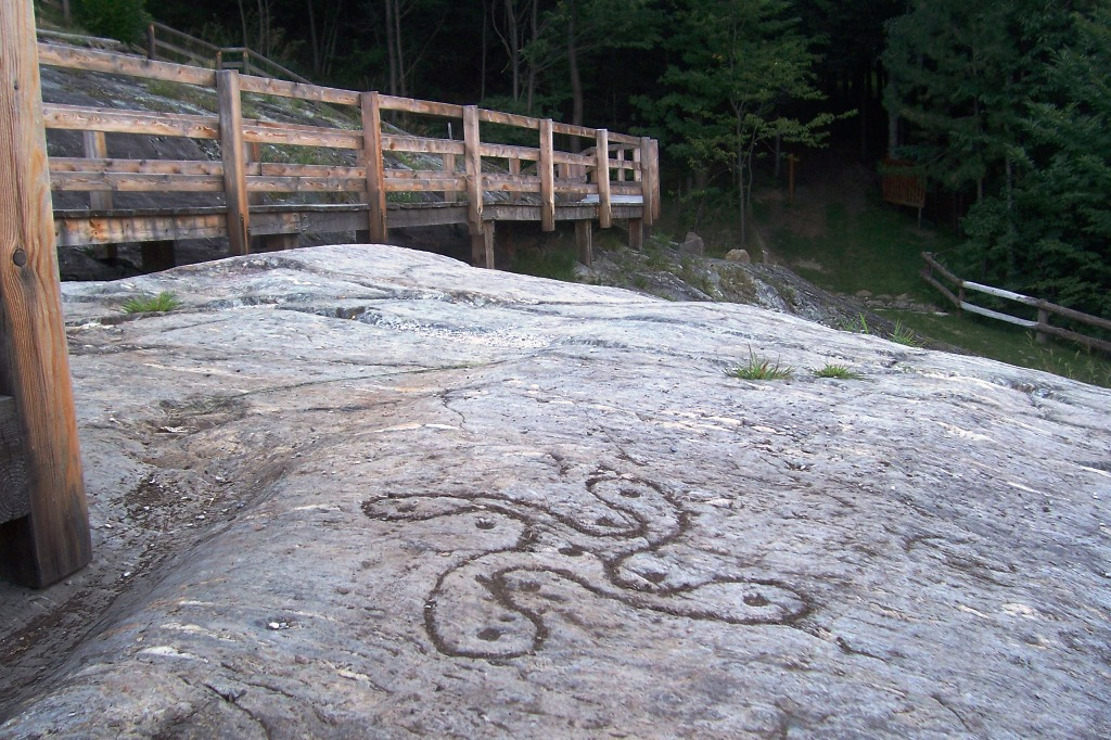 R. 2-3. Camunian rose (marked). Loc. Carpene, Sellero, Val Camonica, Italy.